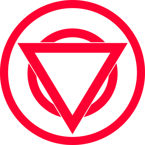 British band Enter Shikari logo